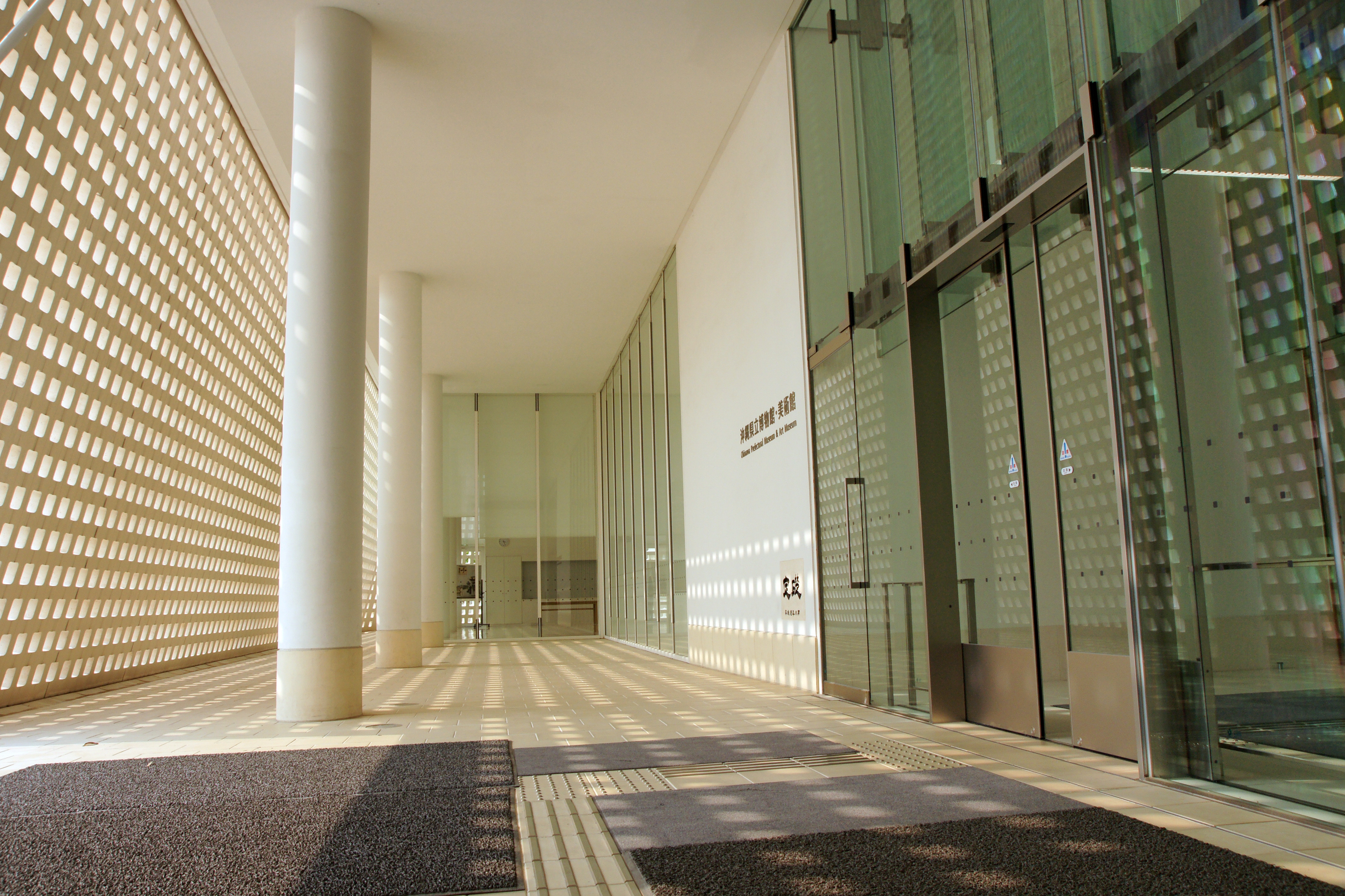 Okinawa Prefectural Museum & Art Museum, Naha, Okinawa prefecture, Japan